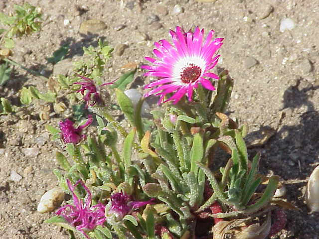 Species: Dorotheantus belldiformis Family: Aizoaceae Image No. 1